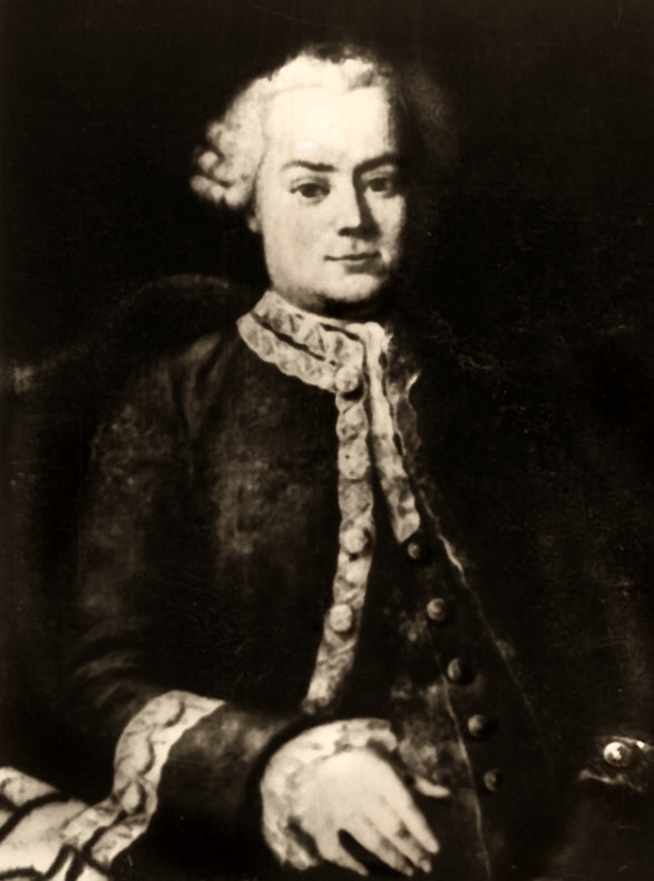 Samuel Gottlieb Gmelin (4 July 1744 – 27 June 1774) was a German physician, botanist and explorer.